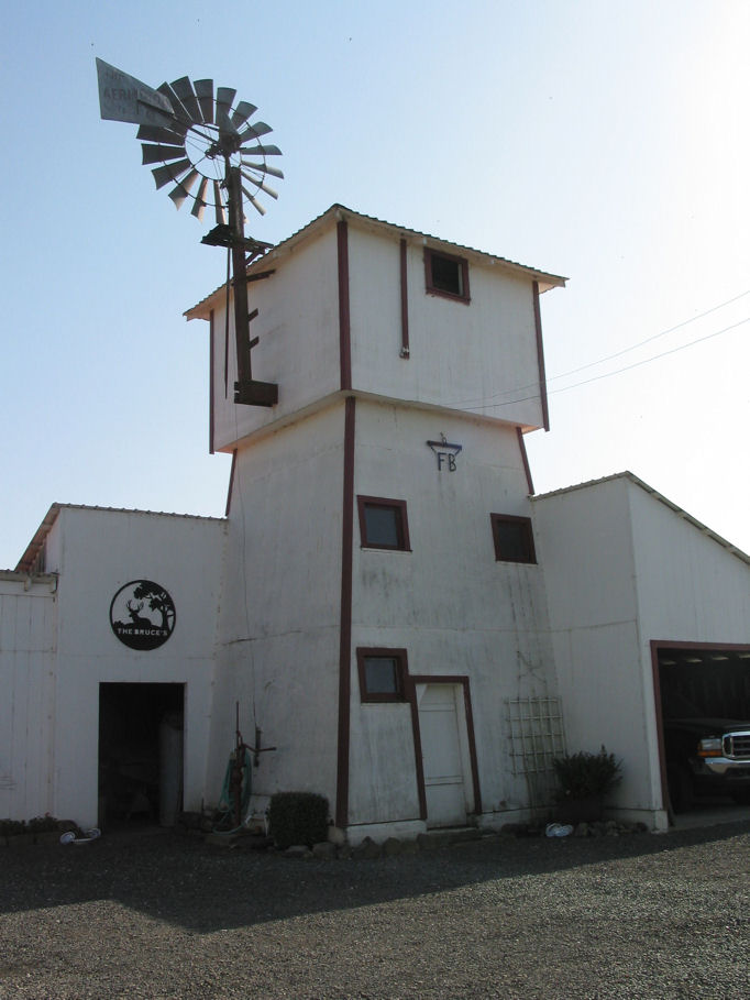 Tankhouse with wind wheel (windmill—wind pump), Sonoma County, California